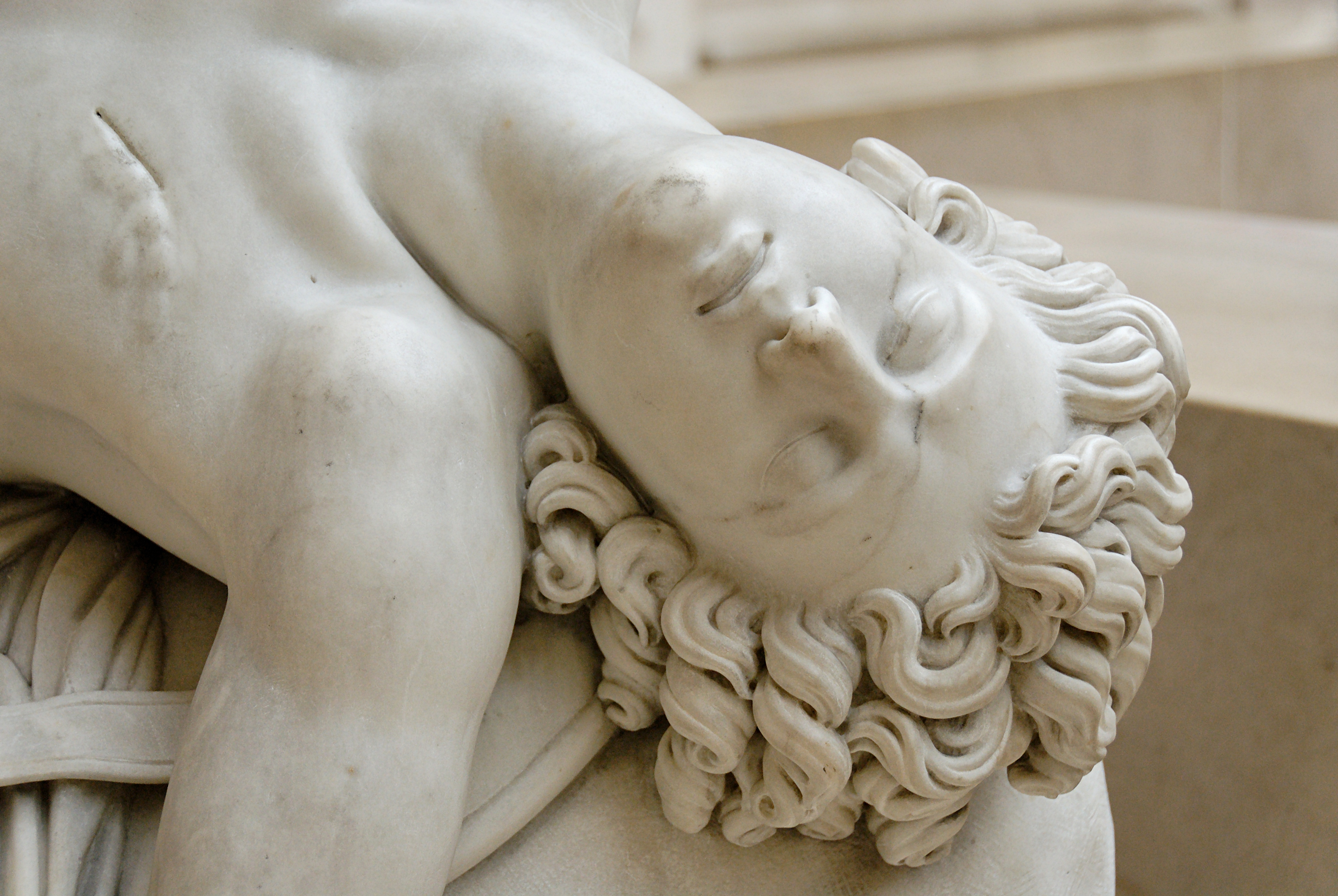 The fallen Euryalus, detail from a group representing Nisus and Euryalus. Marble, exhibited at the 1827 Salon. A plaster model was exhibited at the 1822 Salon.